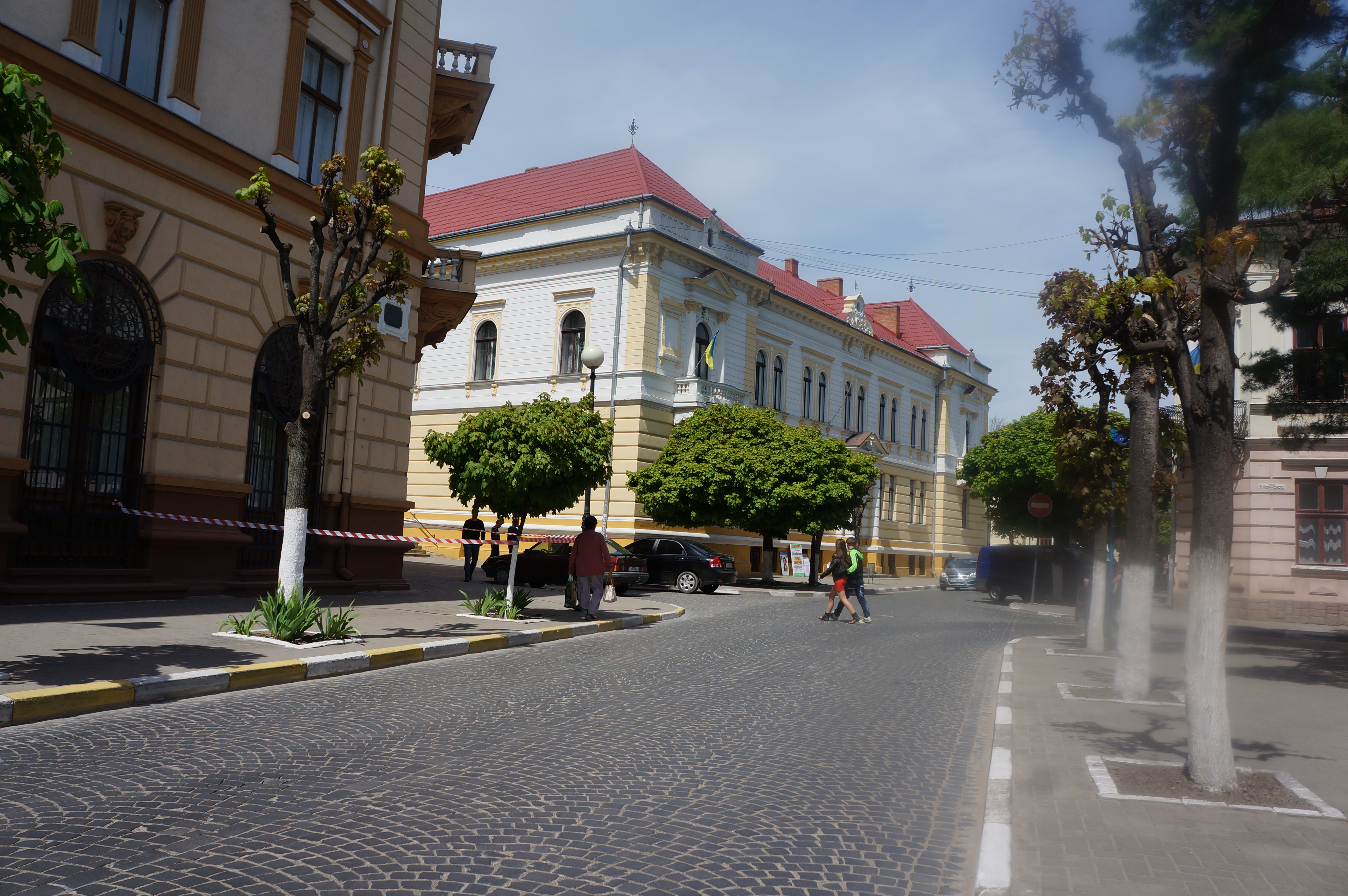 A street in Kolomyja Old town